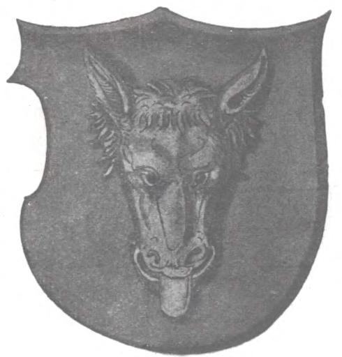 Coat of arms Półkozic from Stemmata polonica